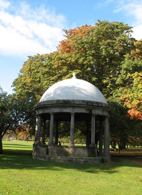 Tewit Well The Tewit Well supplied chalybeate water for visitors to the spa town for two centuries and more. It saw fewer visitors than the wells in Low Harrogate or St John's Well in High Harrogate due to its distance from hotels and lodging houses. 'Tewit' is a local word for peewit or lapwing, these birds once being common on the Stray.